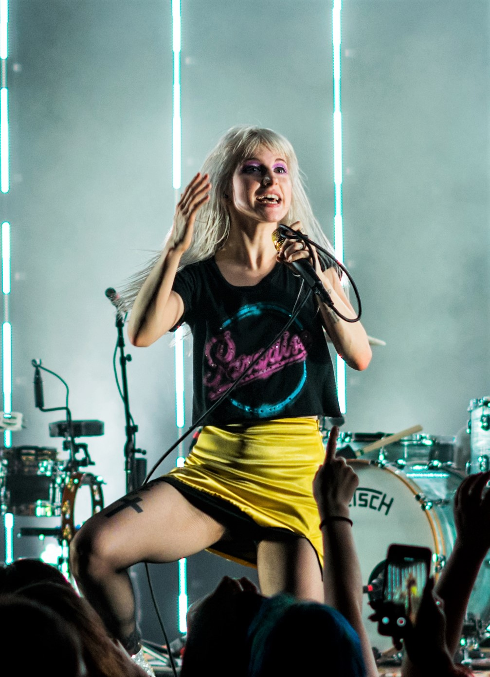 A cropped version of File:Paramore at Royal Albert Hall - 19th June 2017 - 34.jpg